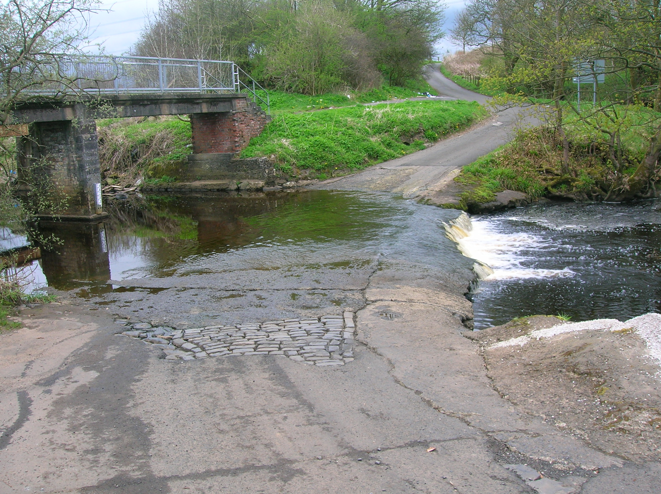 The Bringan Forn on the Fenwick Water in Kilmarnock, East Ayrshire, Scotland. Also known as the Crooksmill Ford.